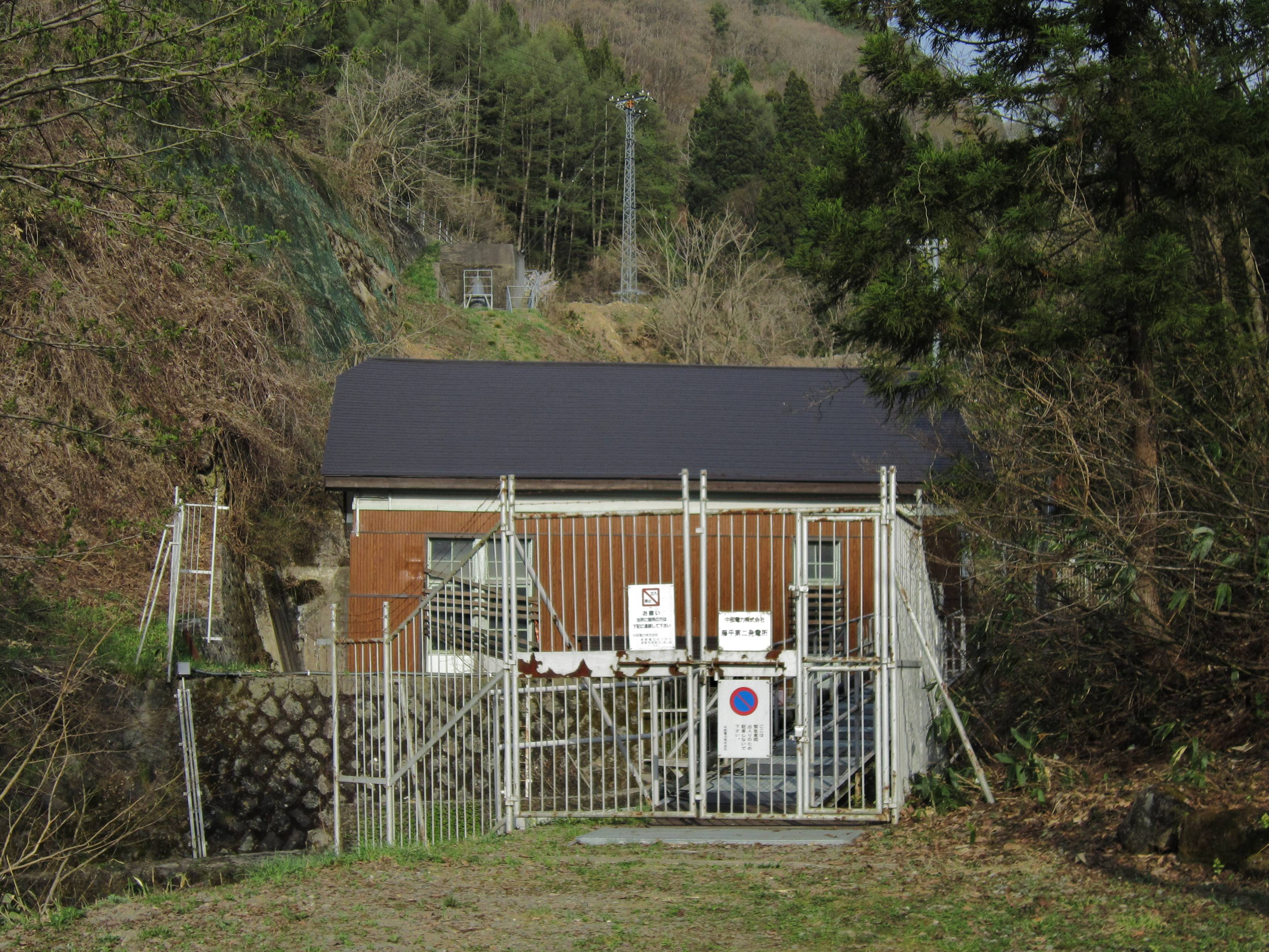 Tōhei II power station.